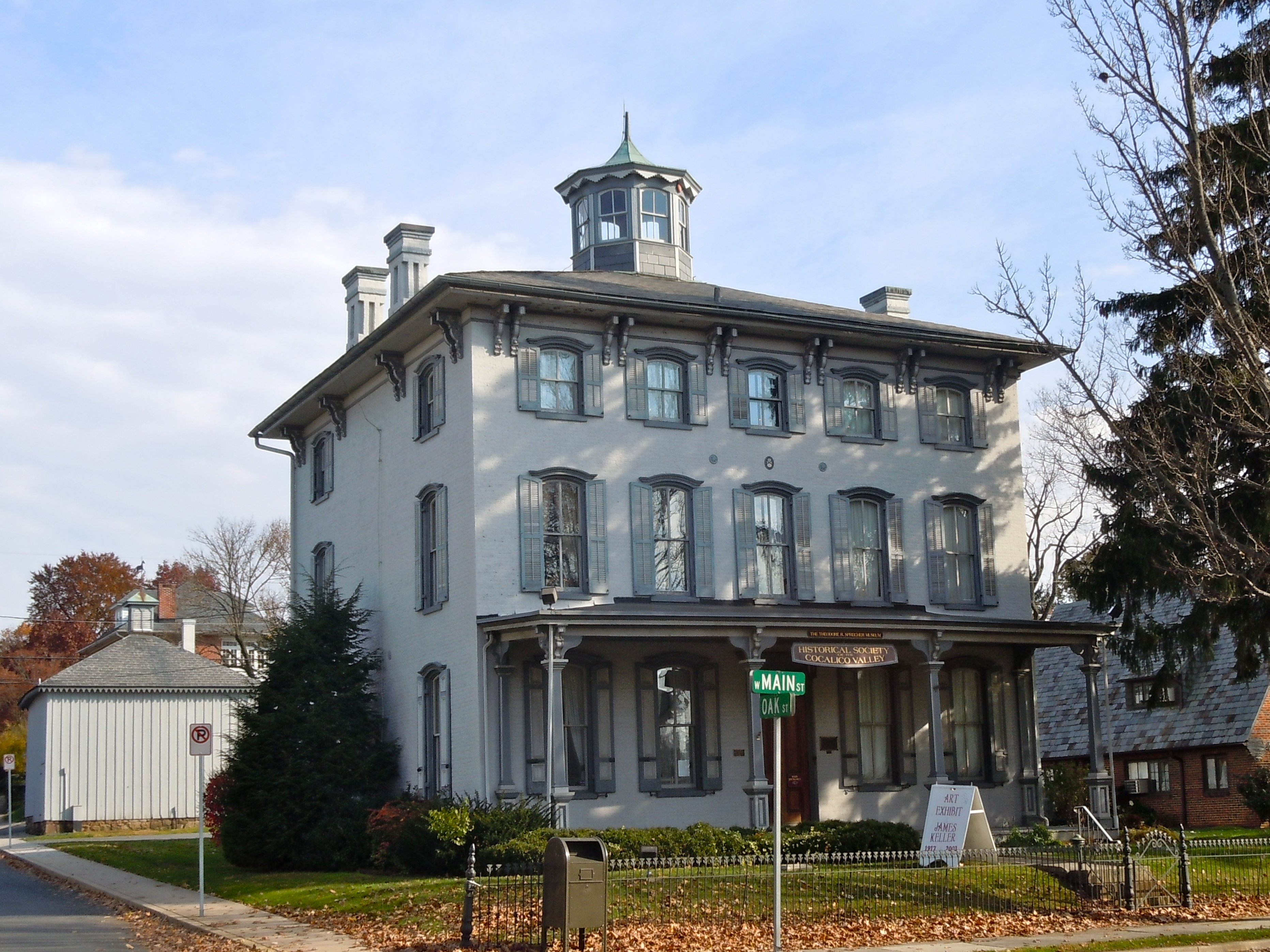 Connell Mansion on the NRHP since January 19, 1979. At 249 West Main Street, Ephrata, Lancaster County, Pennsylvania